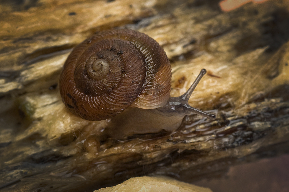 Discus catskillensis. Locality: Ricketts Glenn State Park, Luzerne Co., PA.